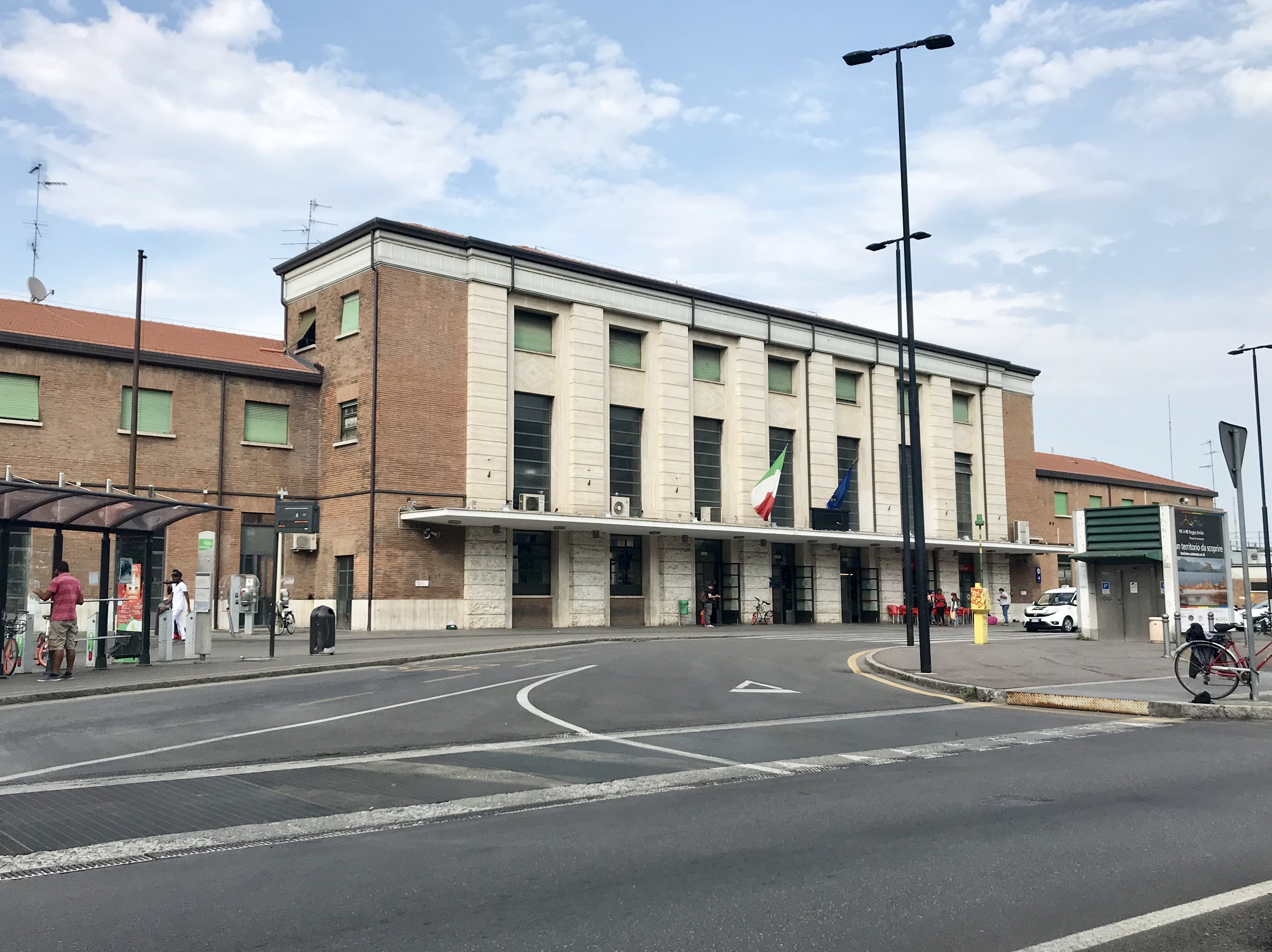 Reggio Emilia central railway station